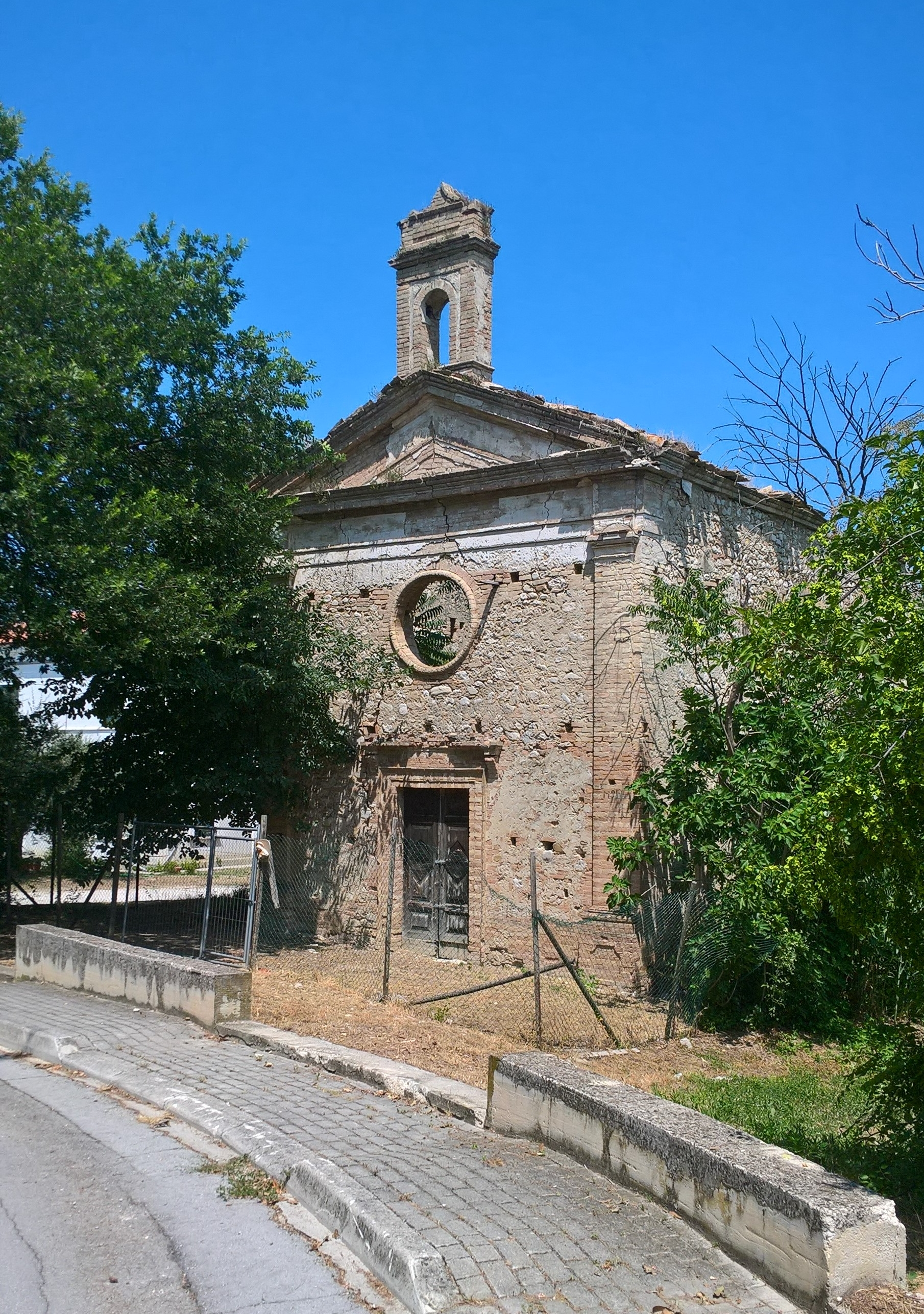 The remains of a started skeleton of the church building, named "L'incompiuta" (the unfinished)